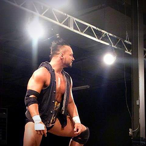 película de gran lucha libre